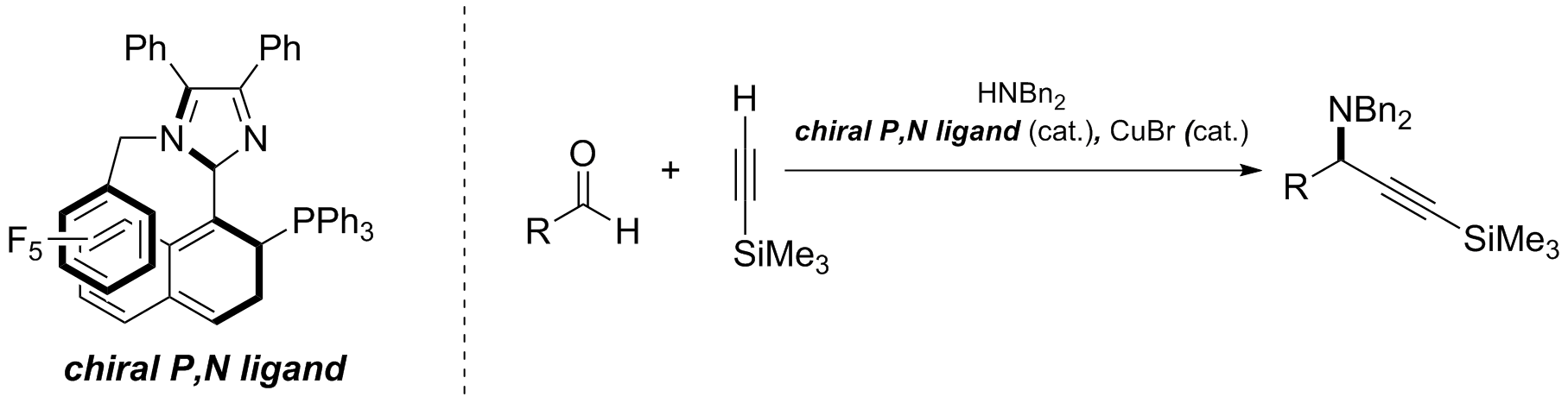 pnligand for catalysis